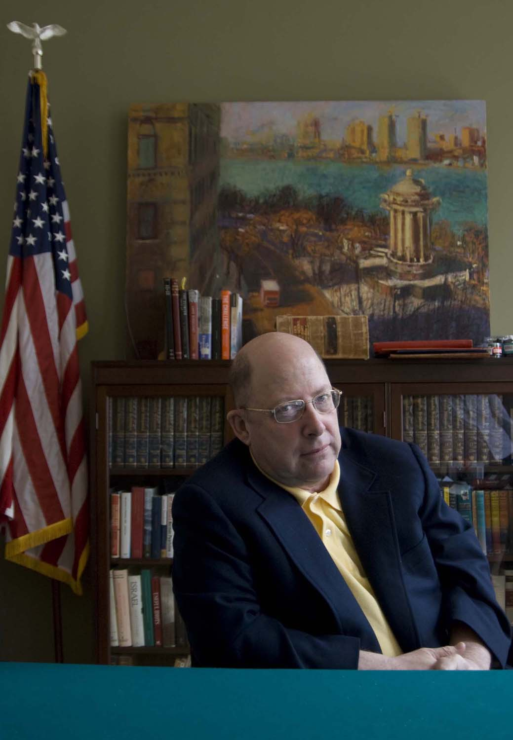 Seth Lipsky (born in 1946) is the founder and editor of the New York Sun, an independent conservative daily in New York City that ceased its print edition on September 30, 2008. Lipsky counts Ronald Reagan, Margaret Thatcher, Winston Churchill, Ariel Sharon, and Milton Friedman among his intellectual and ideological heroes. He has a long history of working in the newspaper business, including a stint for the Wall Street Journal in Asia and Belgium. He has also written several invited articles and guest opinions for the New York Times.